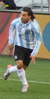 Tévez playing for Argentina against Germany in 2010 FIFA World Cup